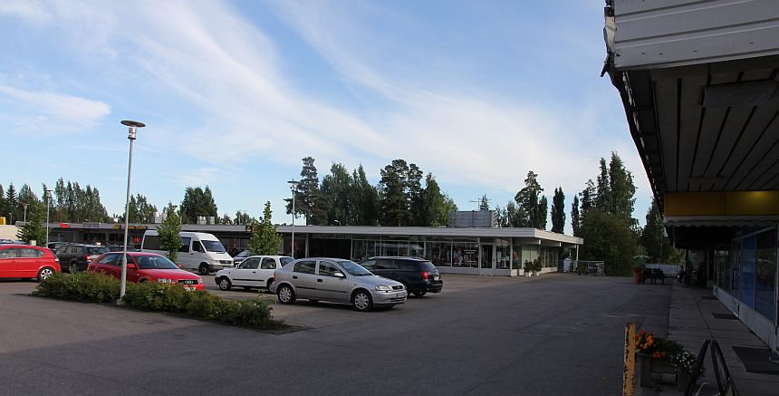 Kaivoksela shopping centre, Vantaa, Finland. View of the upper yard. Please remember mention the author if you use the photo.